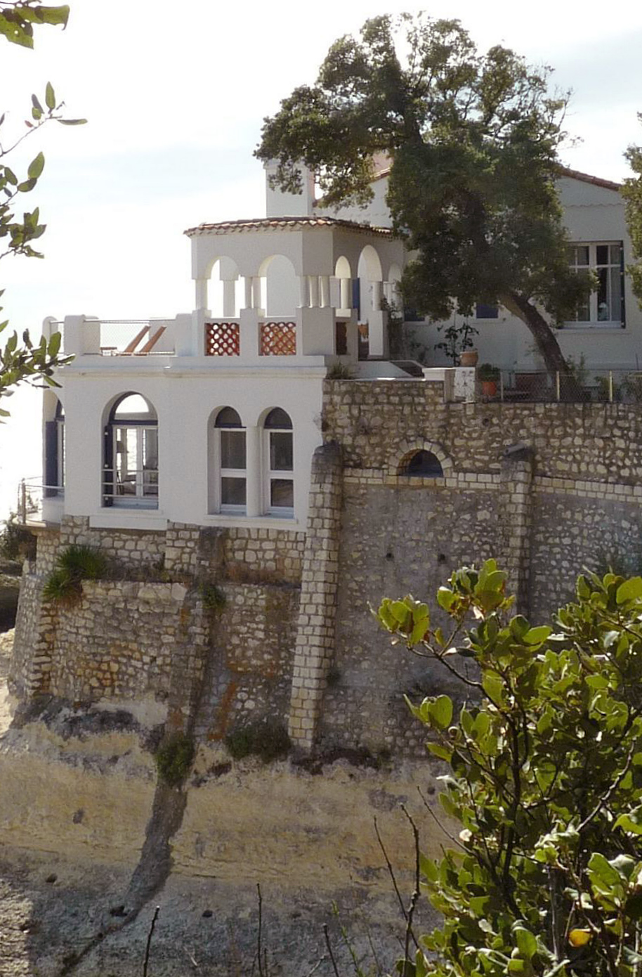 Villa à St-Palais-sur-Mer (17), France.